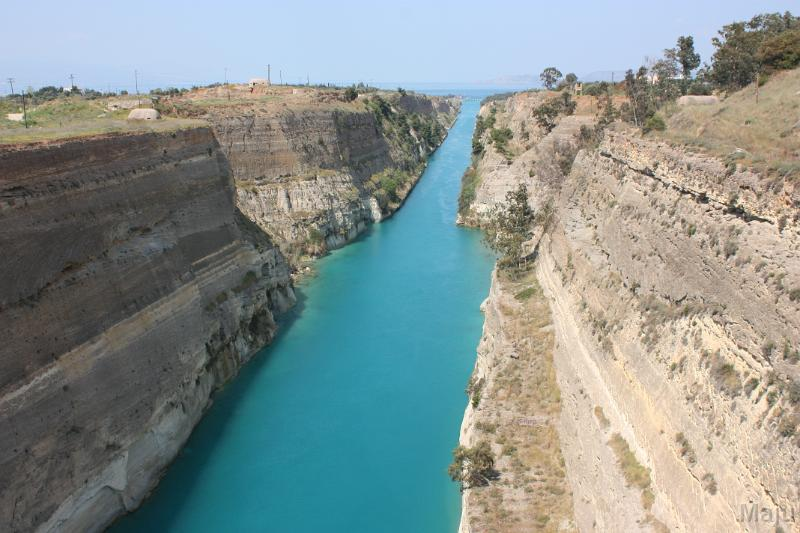 Corinth Canal